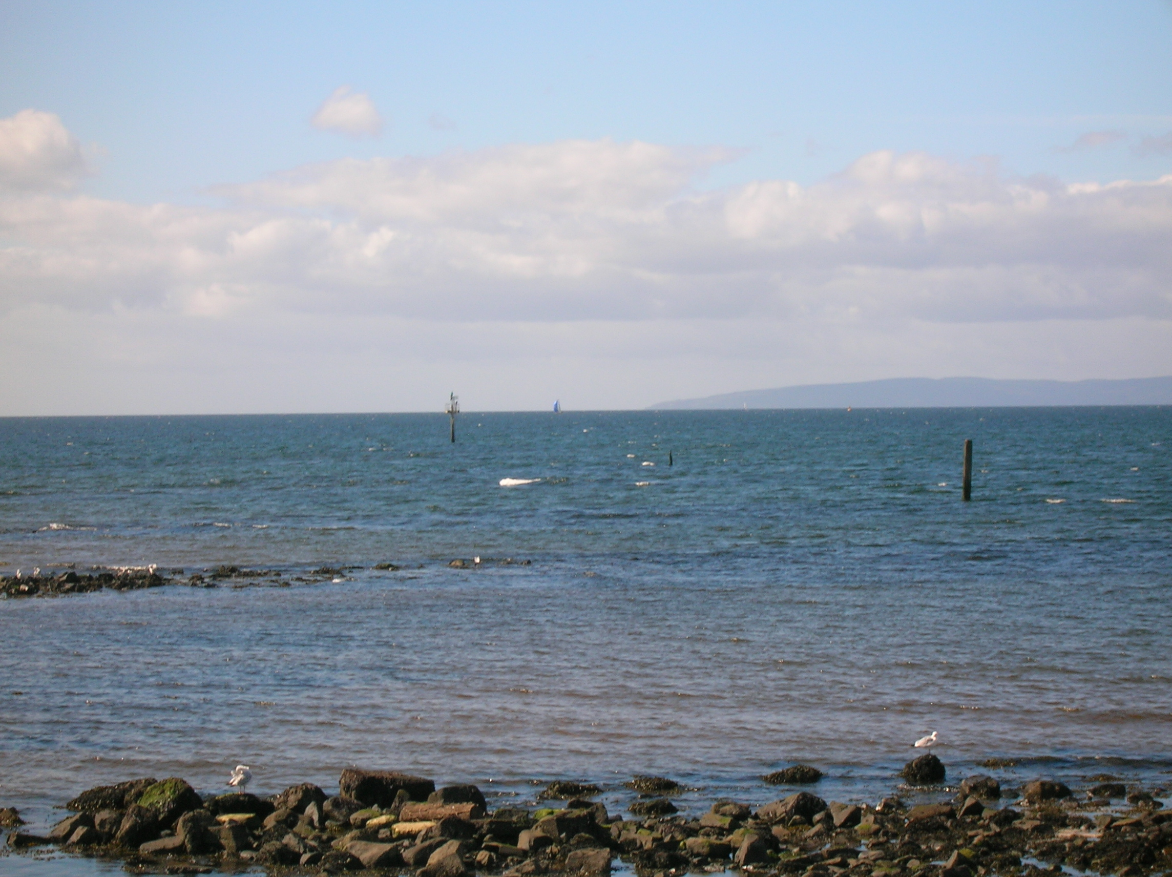 Irvine bar, North Ayrshire, Scotland. Groins or 'breastworks' in the foreground. Rosser 18:59, 26 August 2007 (UTC)